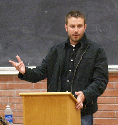 American journalist Jeremy Scahill giving a lecture at Sacramento City College in Sacramento, California, United States. Photo taken with a Sony DSLR-A100 digital camera.